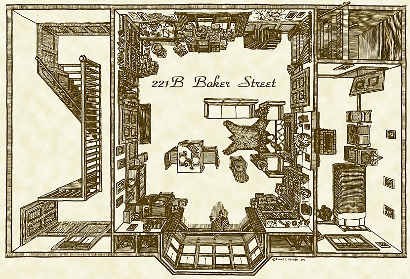 Plan of 221B Baker Street